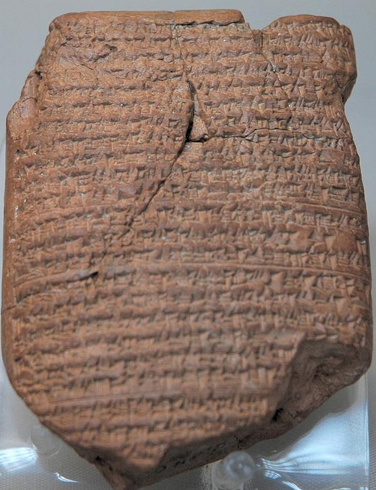 ABC 05 ABC 05 Early Years of Nebuchadnezzar chronicle. Chronicle Concerning the Early Years of Nebuchadnezzar II (ca. 590 BCE). Also called "Jerusalem Chronicle".